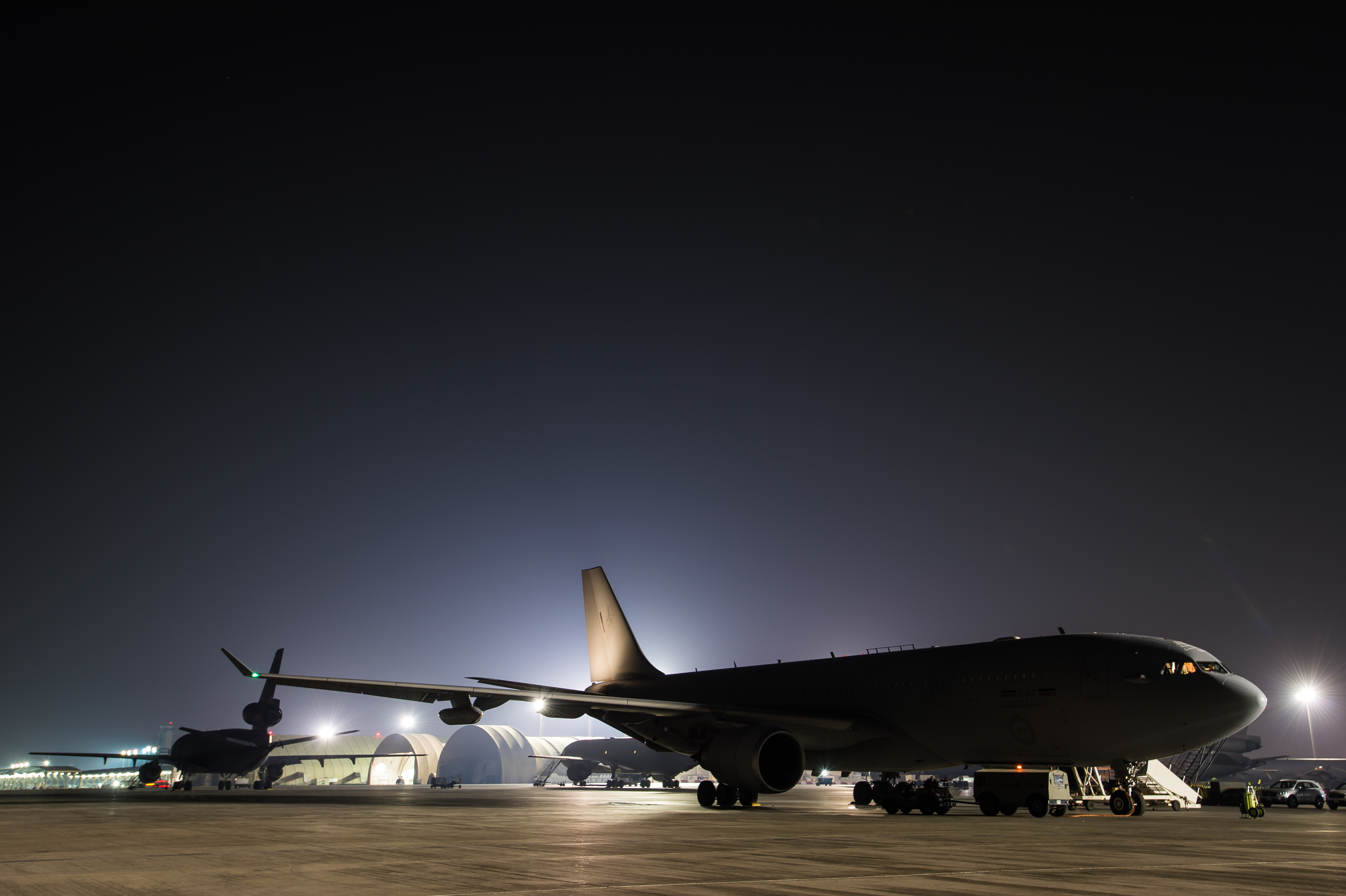 A Royal Australian Air Force KC-30A is prepped for a formation departure with a U.S. Air Force KC-10 Extender from an undisclosed location in Southwest Asia, Oct. 24, 2016. This is the first time U.S. and RAAF air refueling platforms have flown in formation together. The combined refuelers were capable of delivering more than 576,000 pounds of fuel to coalition aircraft supporting the liberation of Mosul, Iraq. (U.S. Air Force photo by Senior Airman Tyler Woodward)